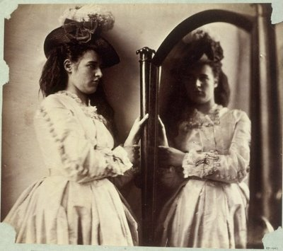 no title